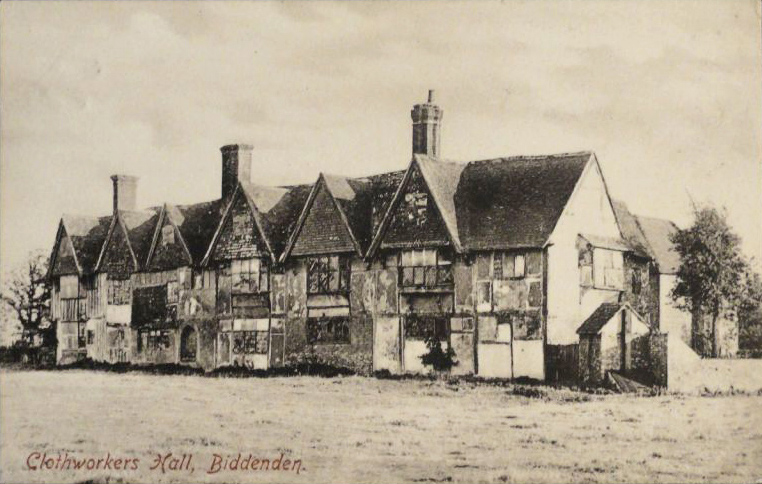 The 15th-century Clothworkers Hall (Old Cloth Hall), Biddenden, Borough of Ashford, Kent